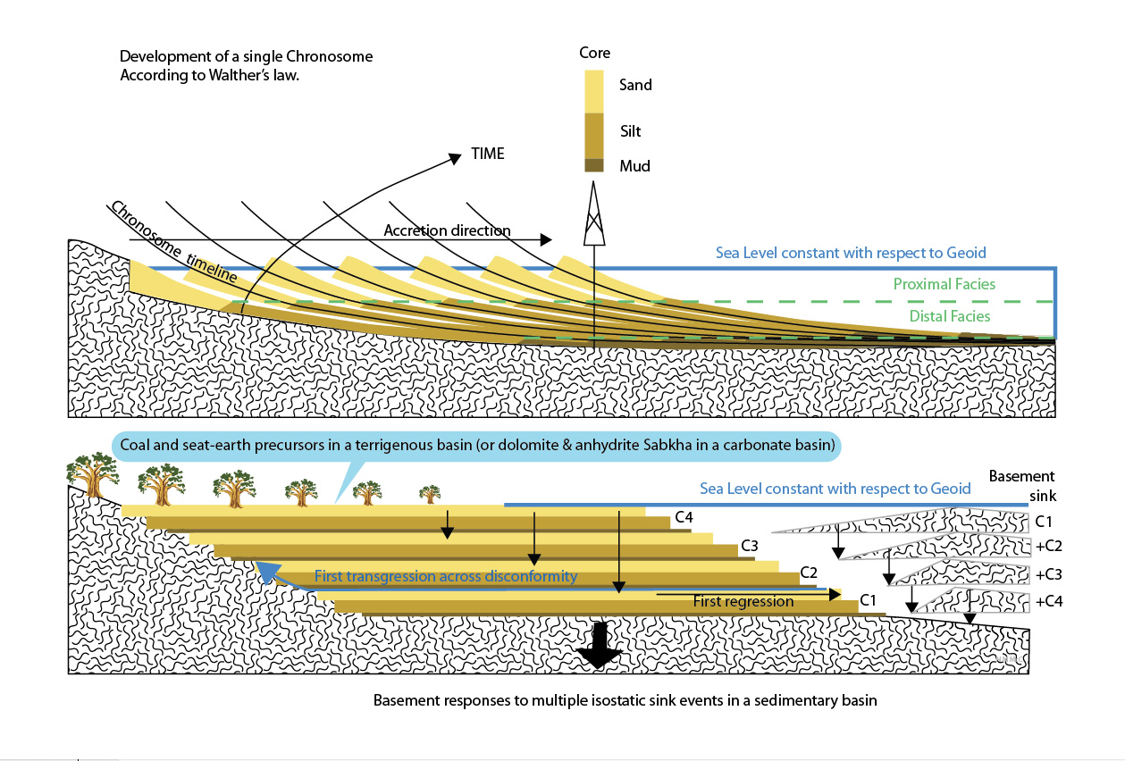 Simplified diagram to show the characteristic deposition patterns of a regressive sequences assuming a stable sea level. Basement subsidence leads to a cyclical repetition of chronosomes in both terriginous and carbonate-rich basins.